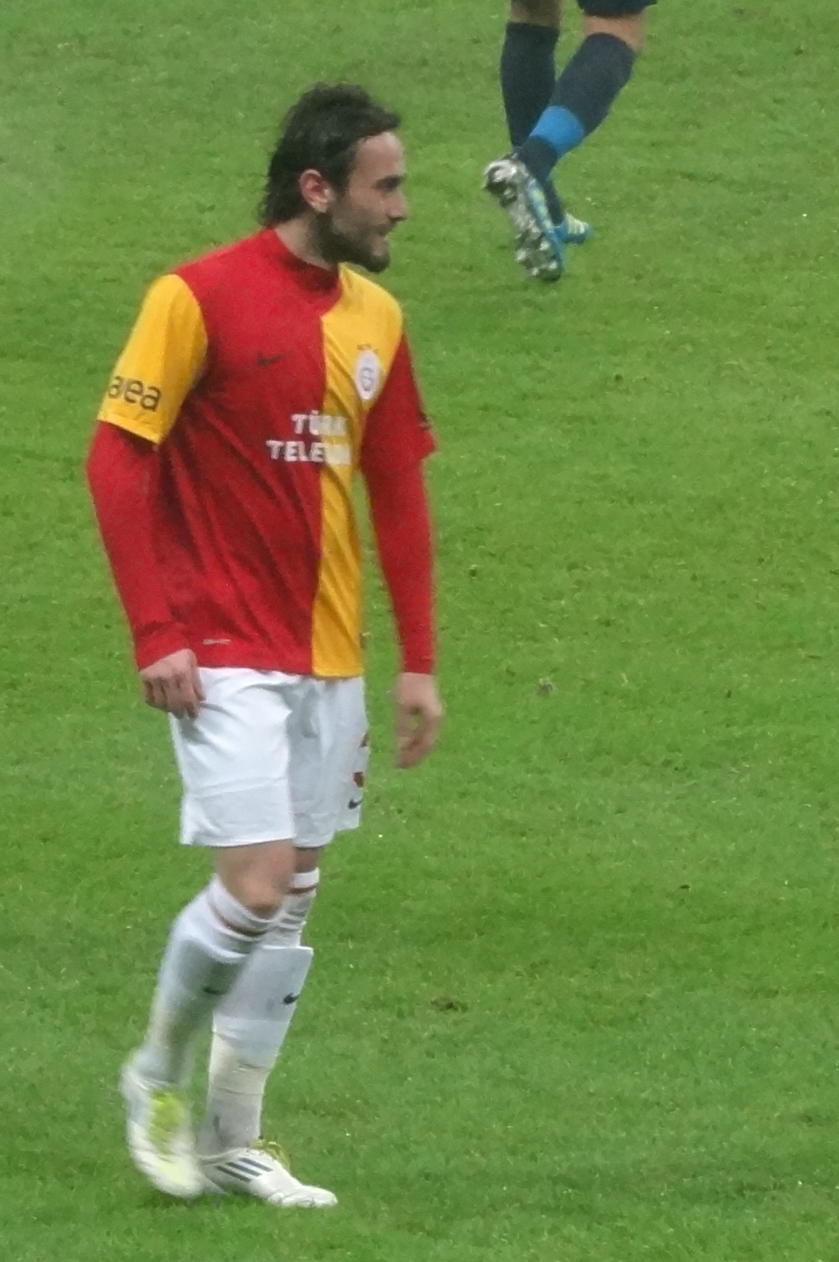 Çağlar vs GS